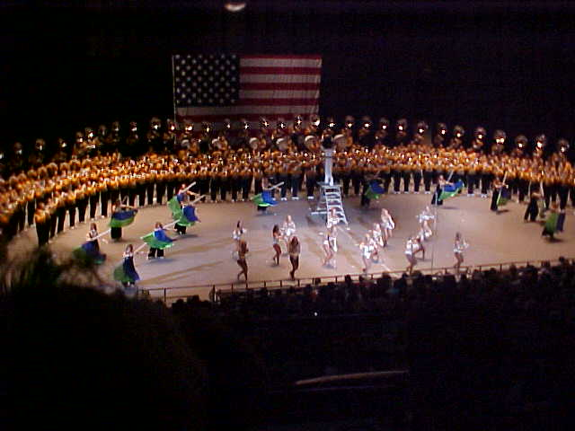 The Louisiana State University Tiger Marching Band performs during its annual Tigerama concert.